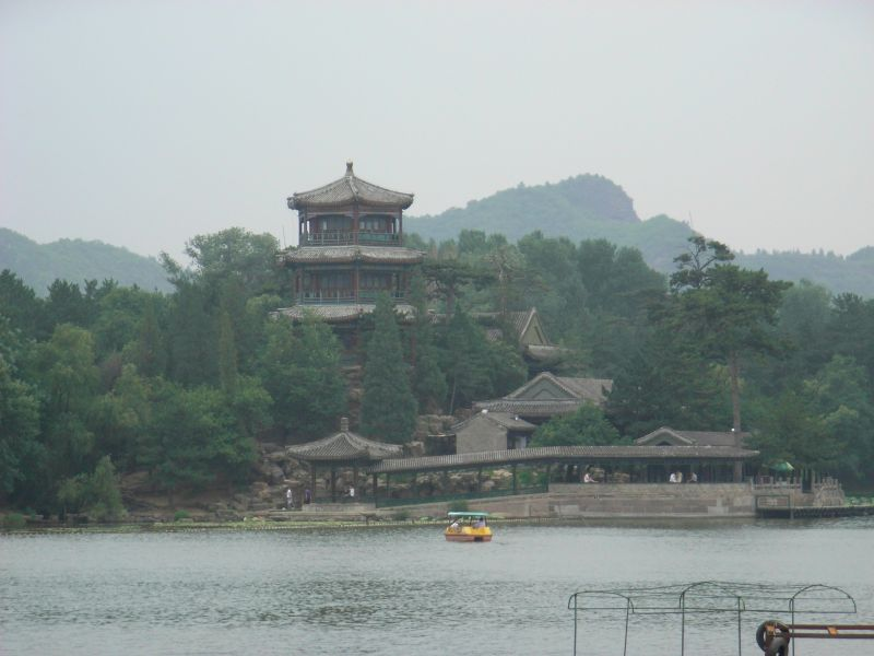 Golden Hill Chengde Summer residenz